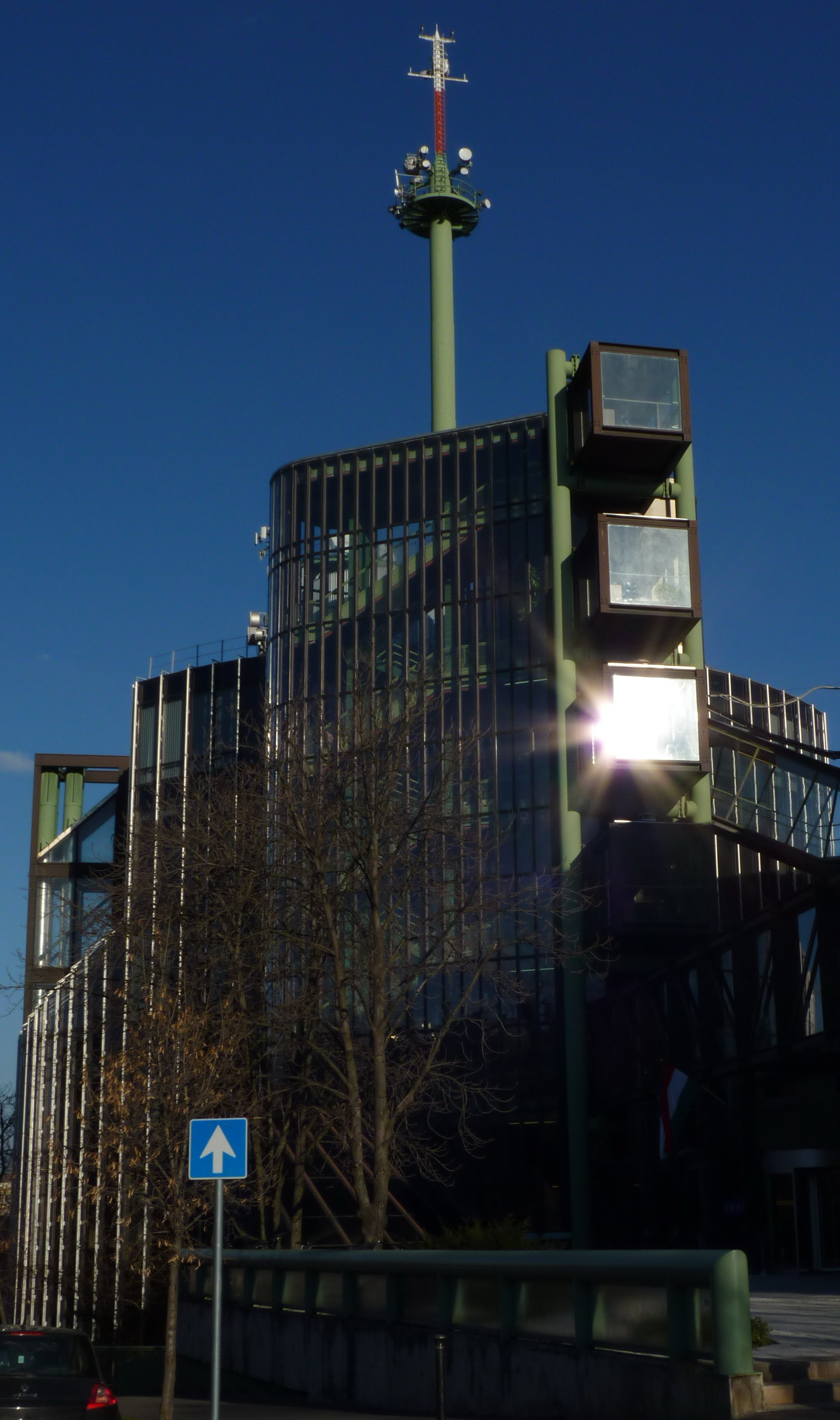 The building of the Hungarian News Agency.